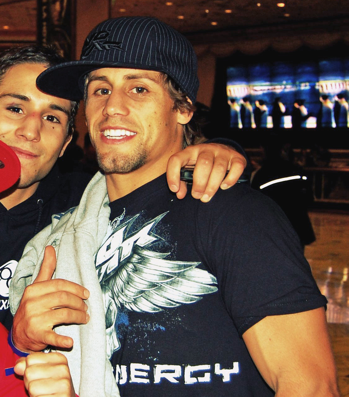 Urijah Faber